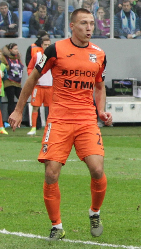 Mikhail Merkulov in action for FC Ural Yekaterinburg in a game against FC Zenit St. Petersburg.